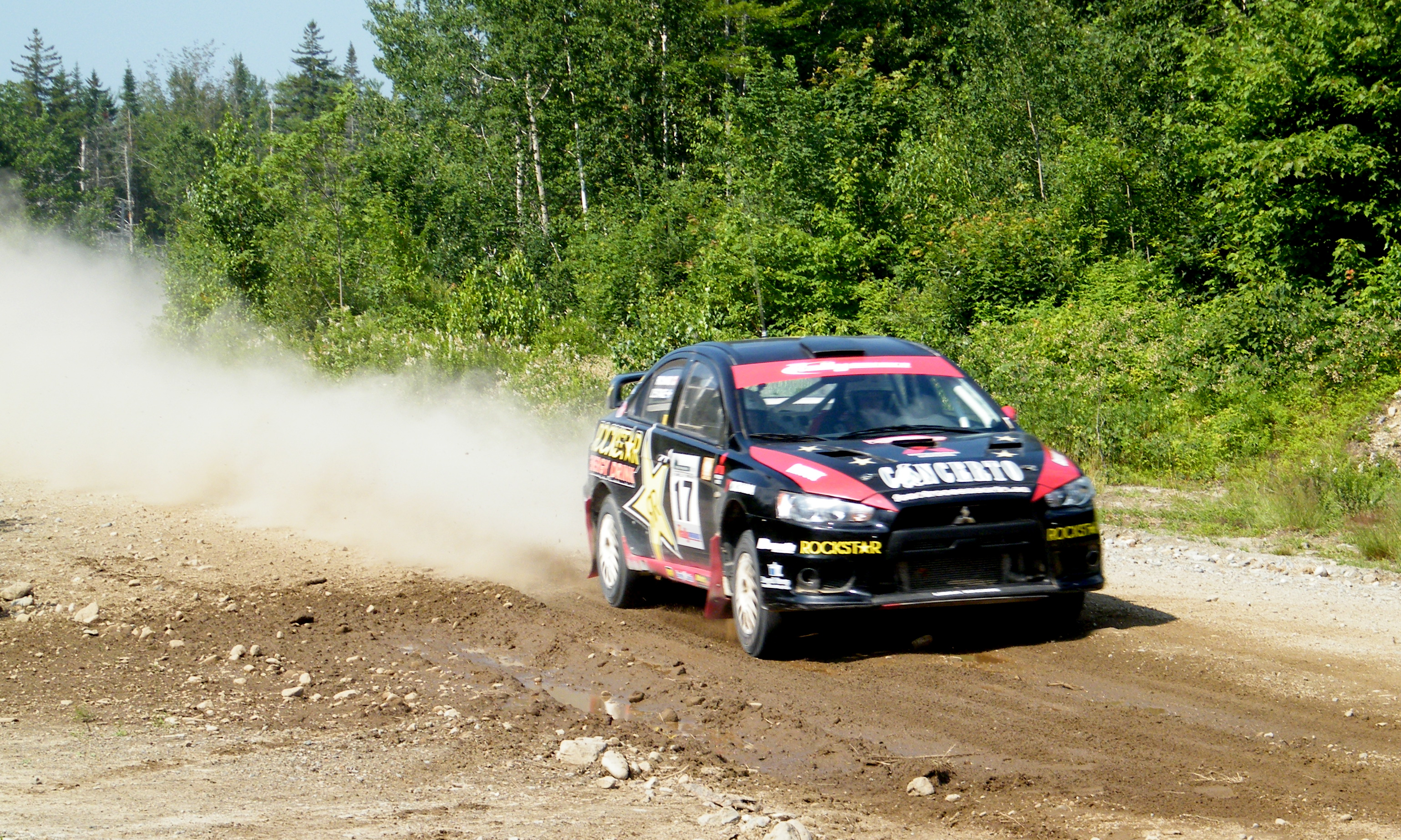 Antoine L'Estage and Nathalie Richard at the New England Forest Rally 2010